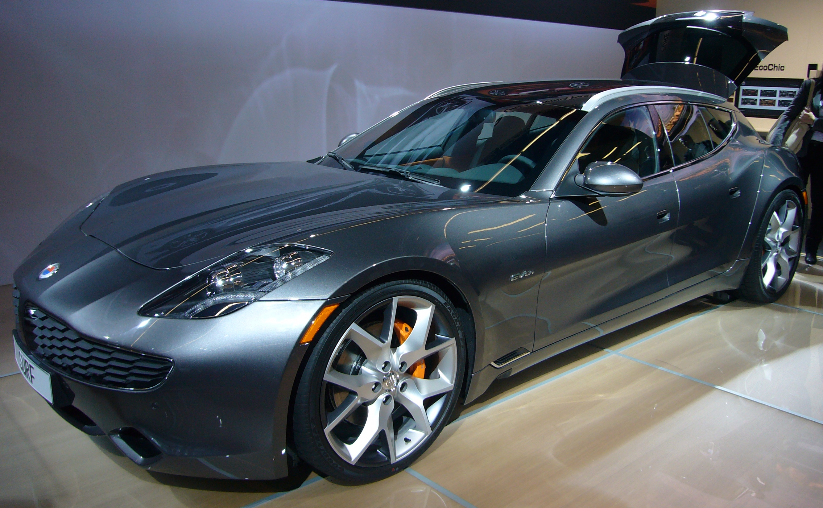 Fisker Surf at IAA Frankfurt 2011